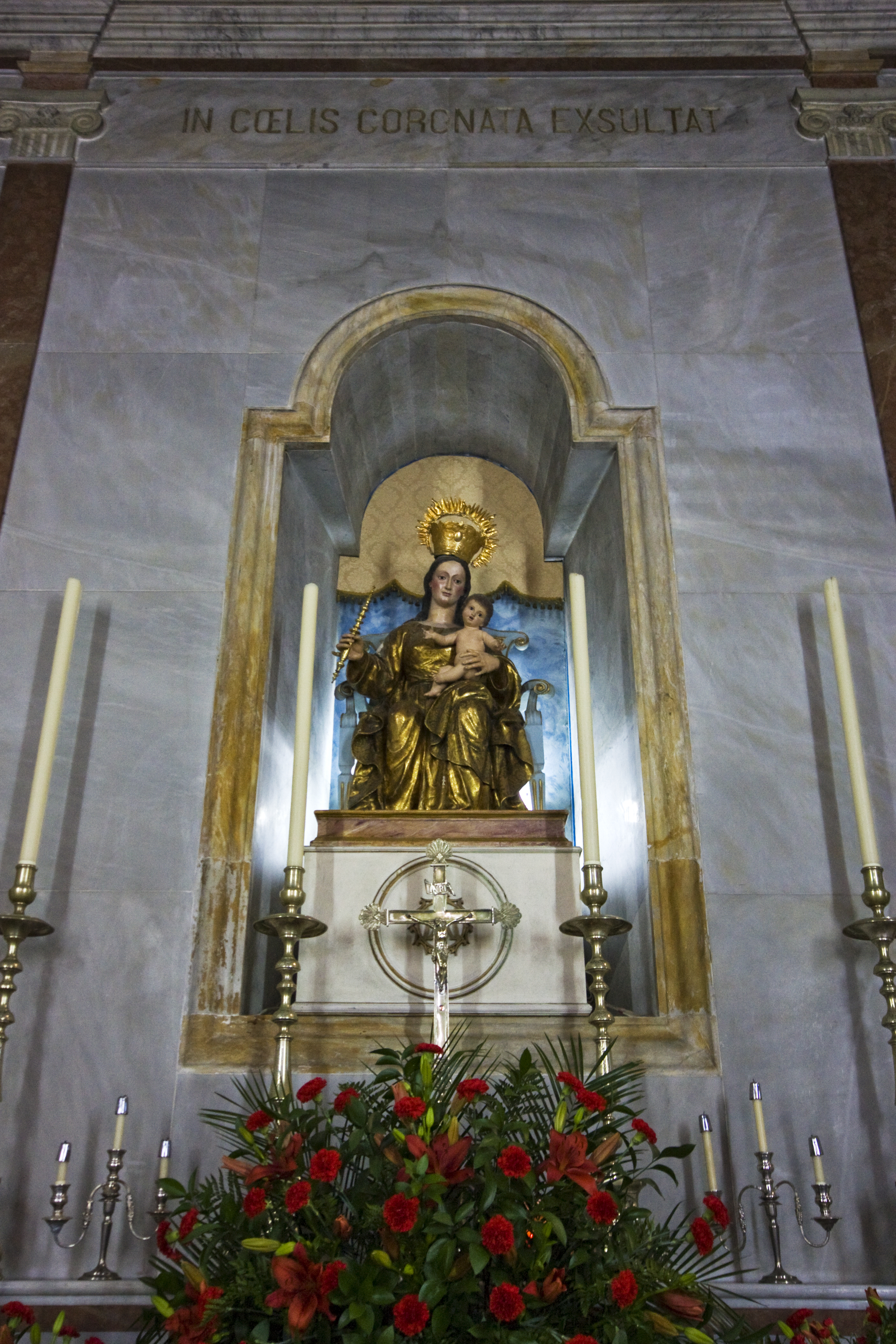 Statue of the Madonna and Child at the Cathedral of St. Mary the Crowned, Gibraltar.